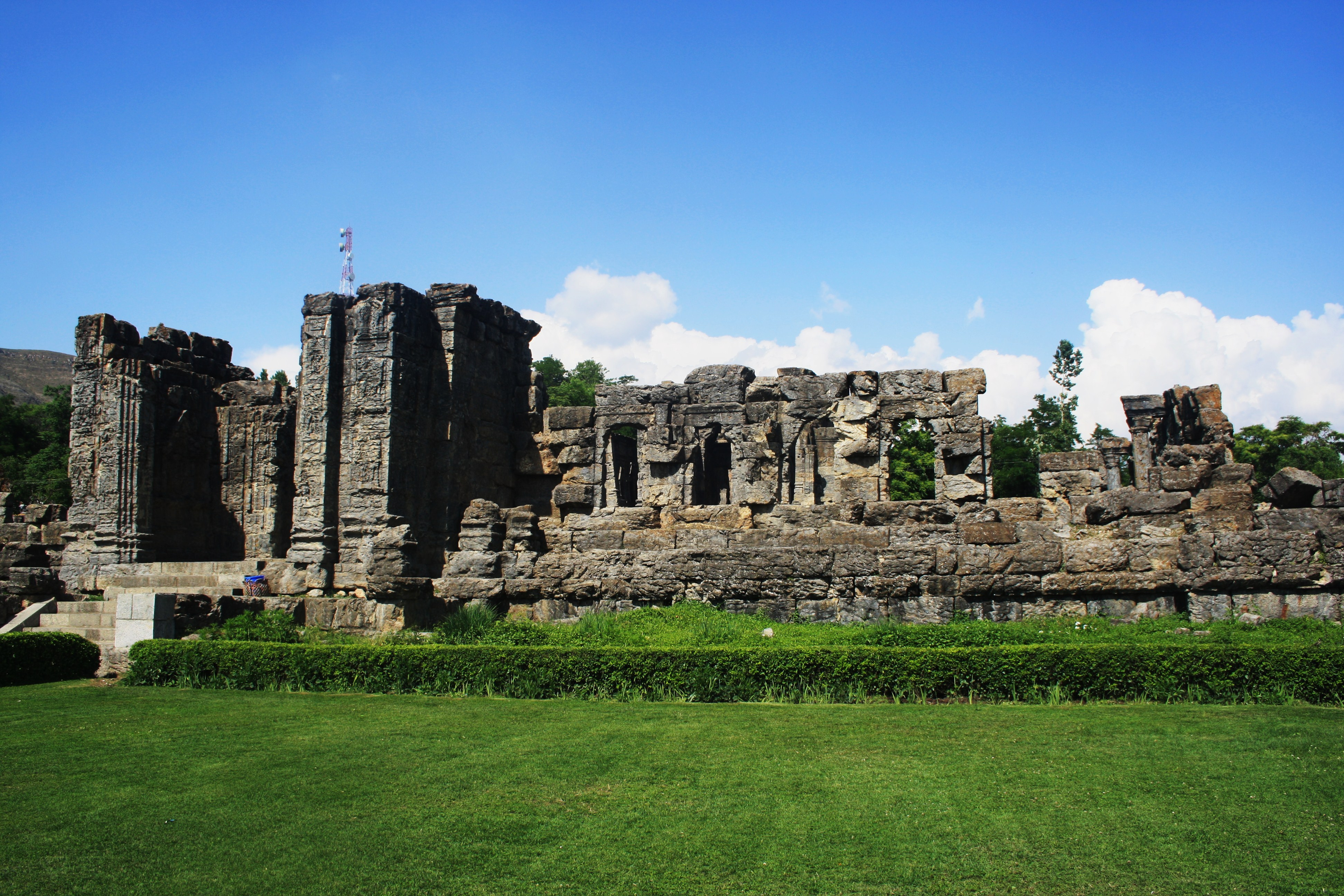 Kartanda (Sun Temple)